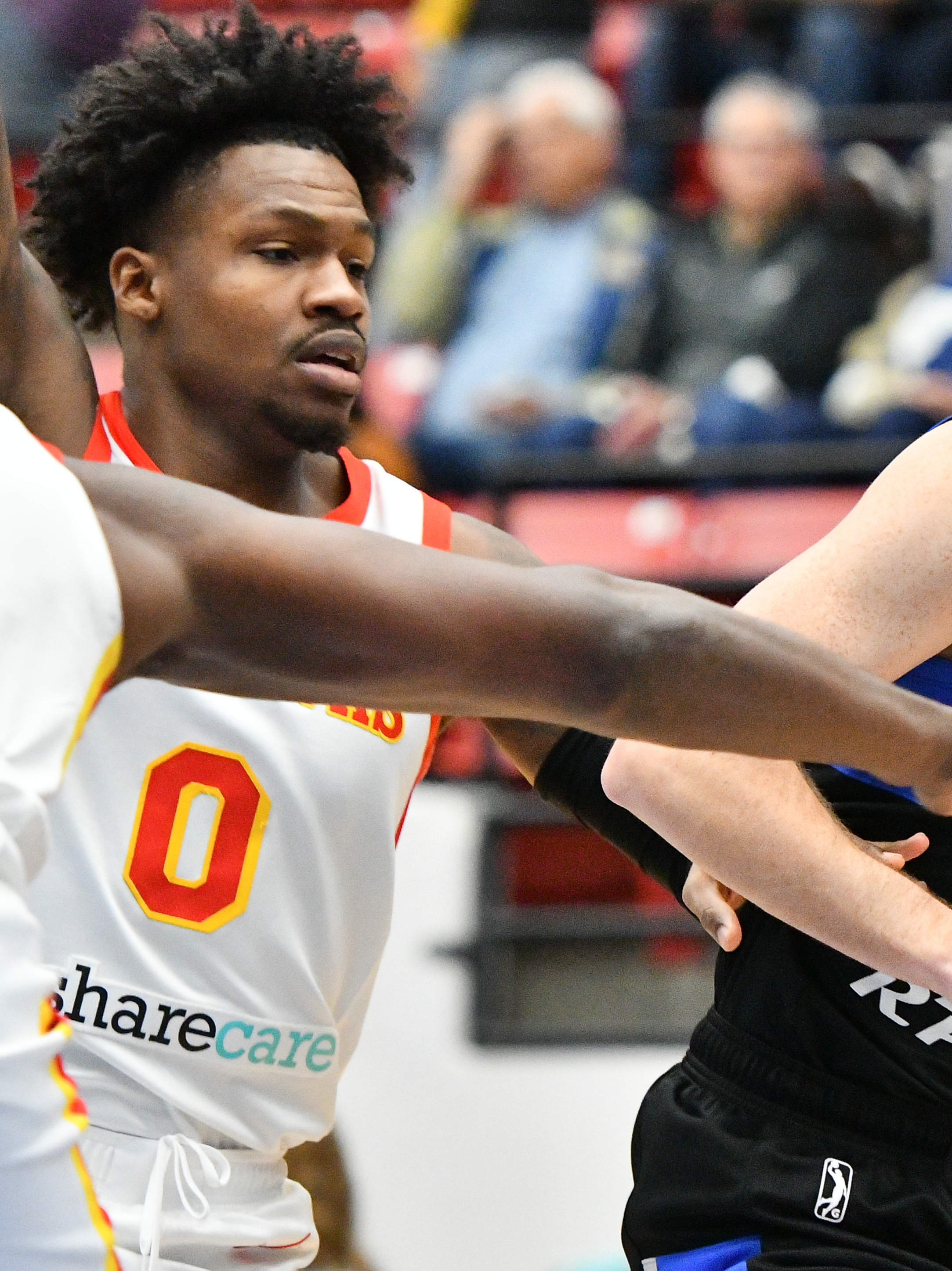 Josh Magette. Lakeland Magic vs College Park Skyhawks. RP Funding Center. Lakeland, Fla. Nov. 16, 2019. (Photo by Tom Hagerty.)